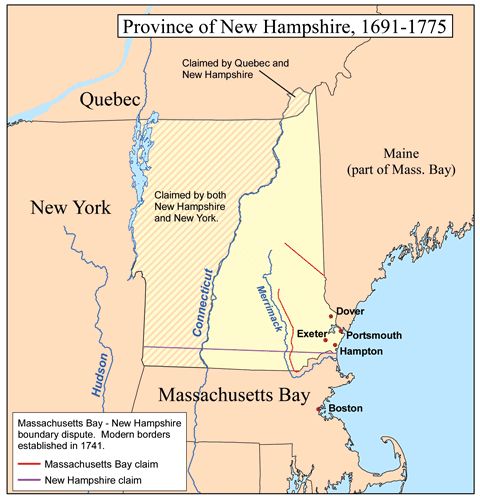 This is a map of the Province of New Hampshire that I made. Data are from USGS except the MA-NH boundary dispute which is based on this map.